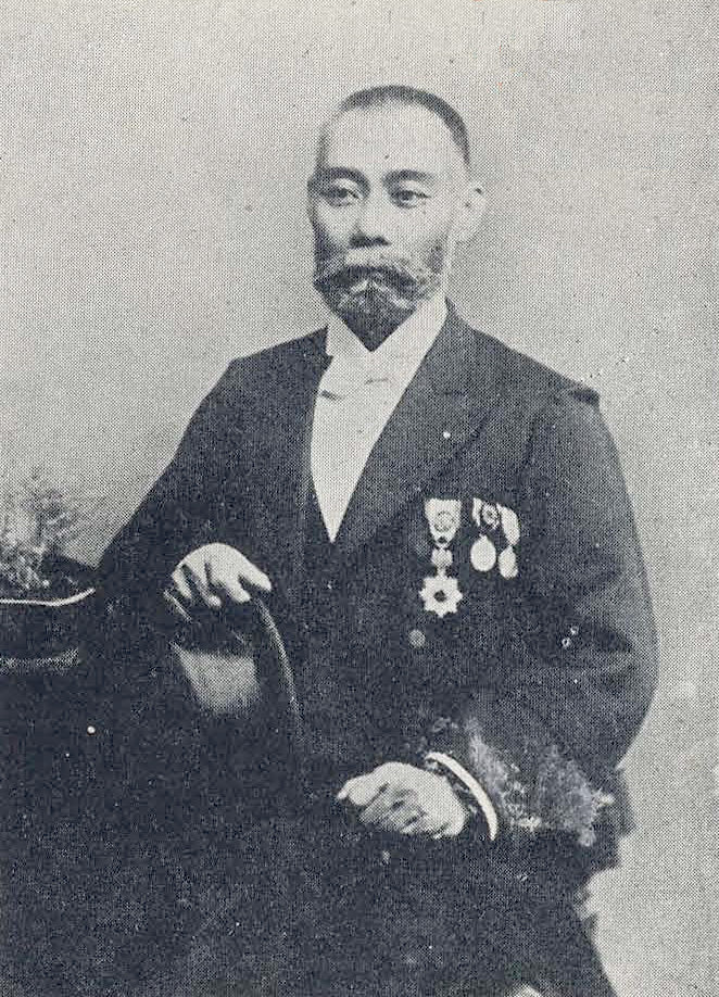 Yamashita Hidemi 山下秀實